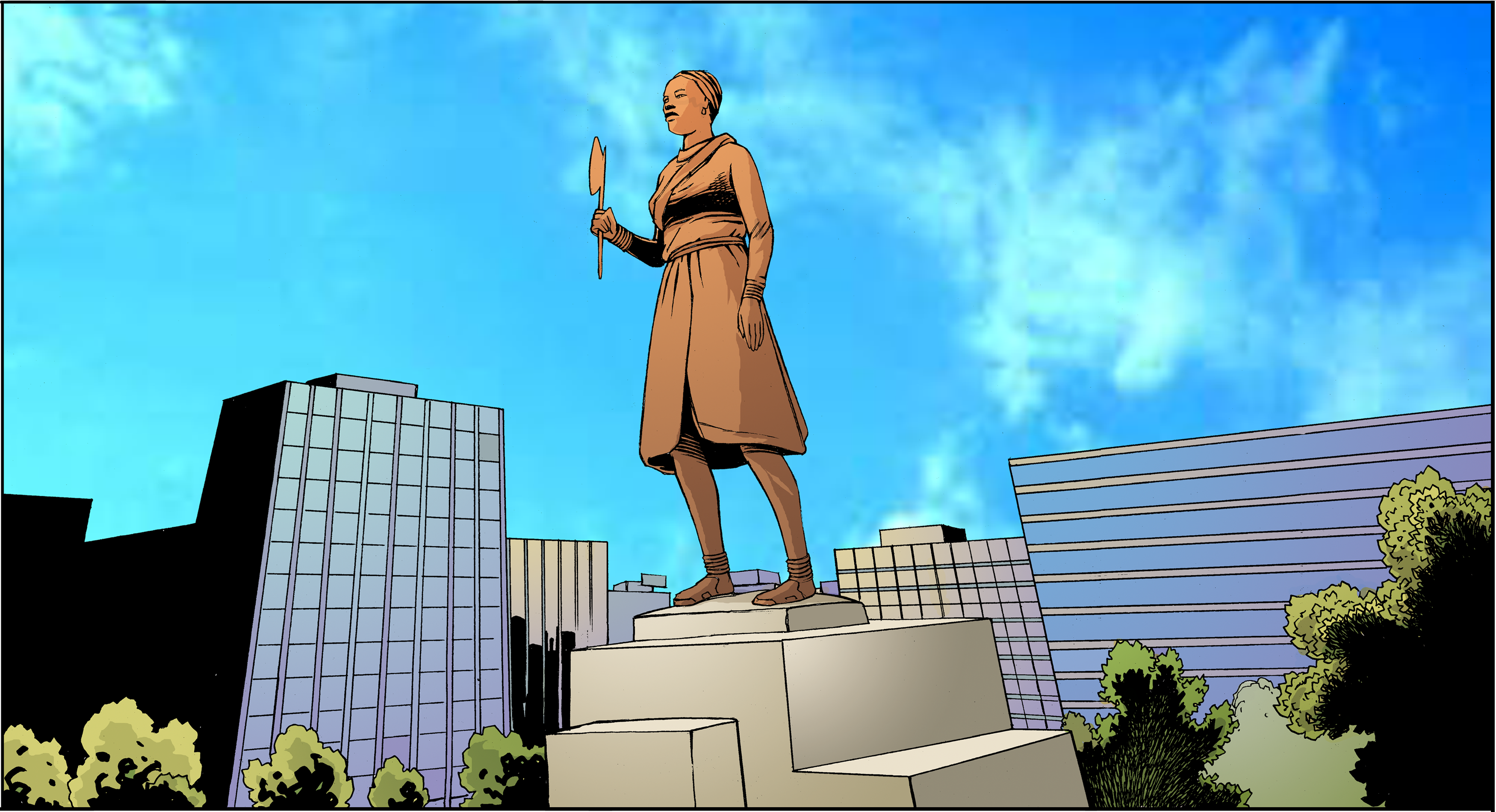 Taken from Nzinga Mbandi: Queen of Ndongo and Matamba from the UNESCO series on women in African history. Illustrations by Pat Masioni